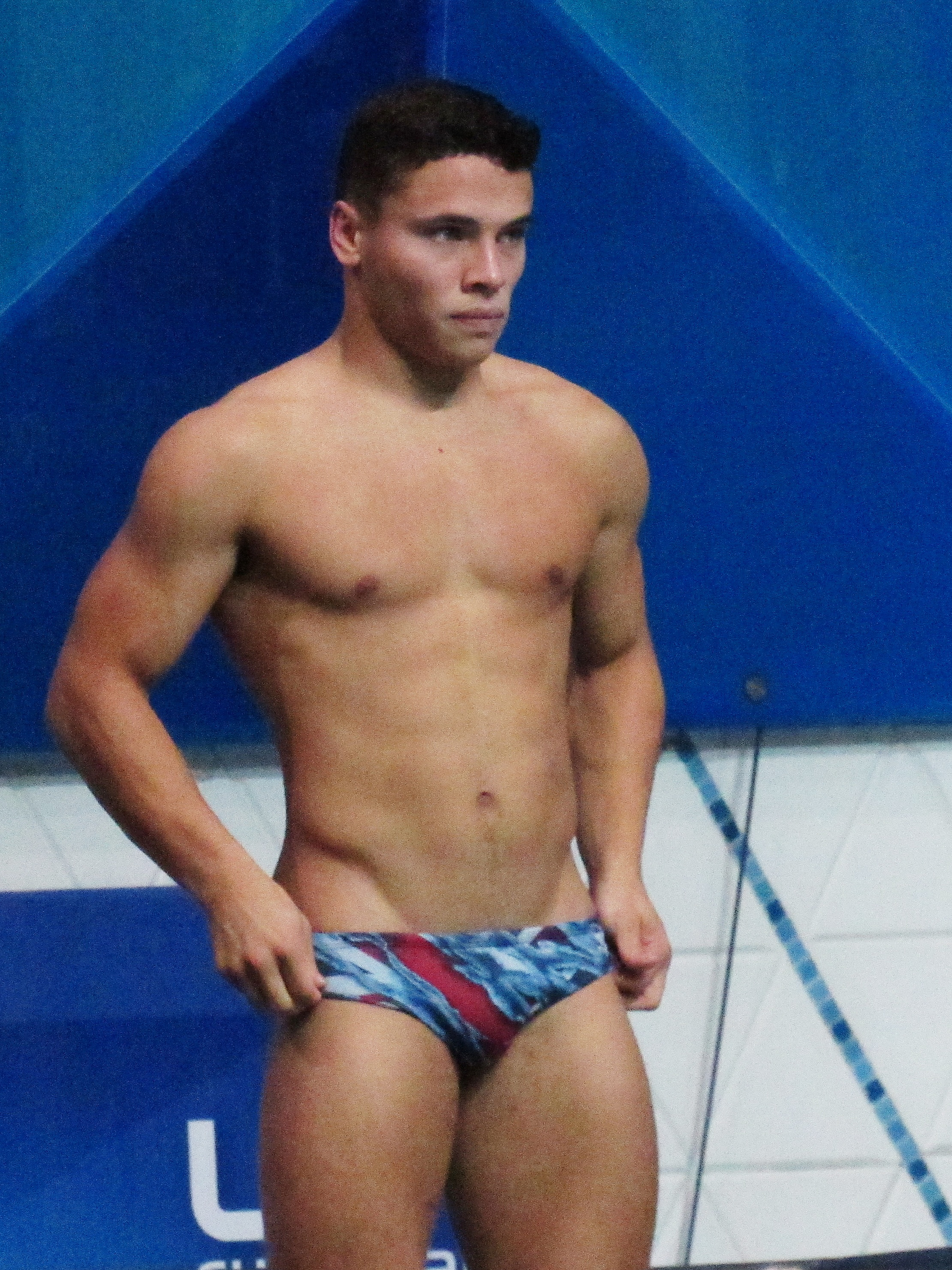 British diver Jordan Houlden at the 2019 European Diving Championships in Kyiv.